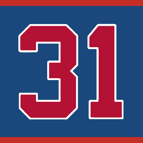 In 2013, the Braves took down the numbers in left field, and put up the players names and numbers on the left and right sides of the club level.